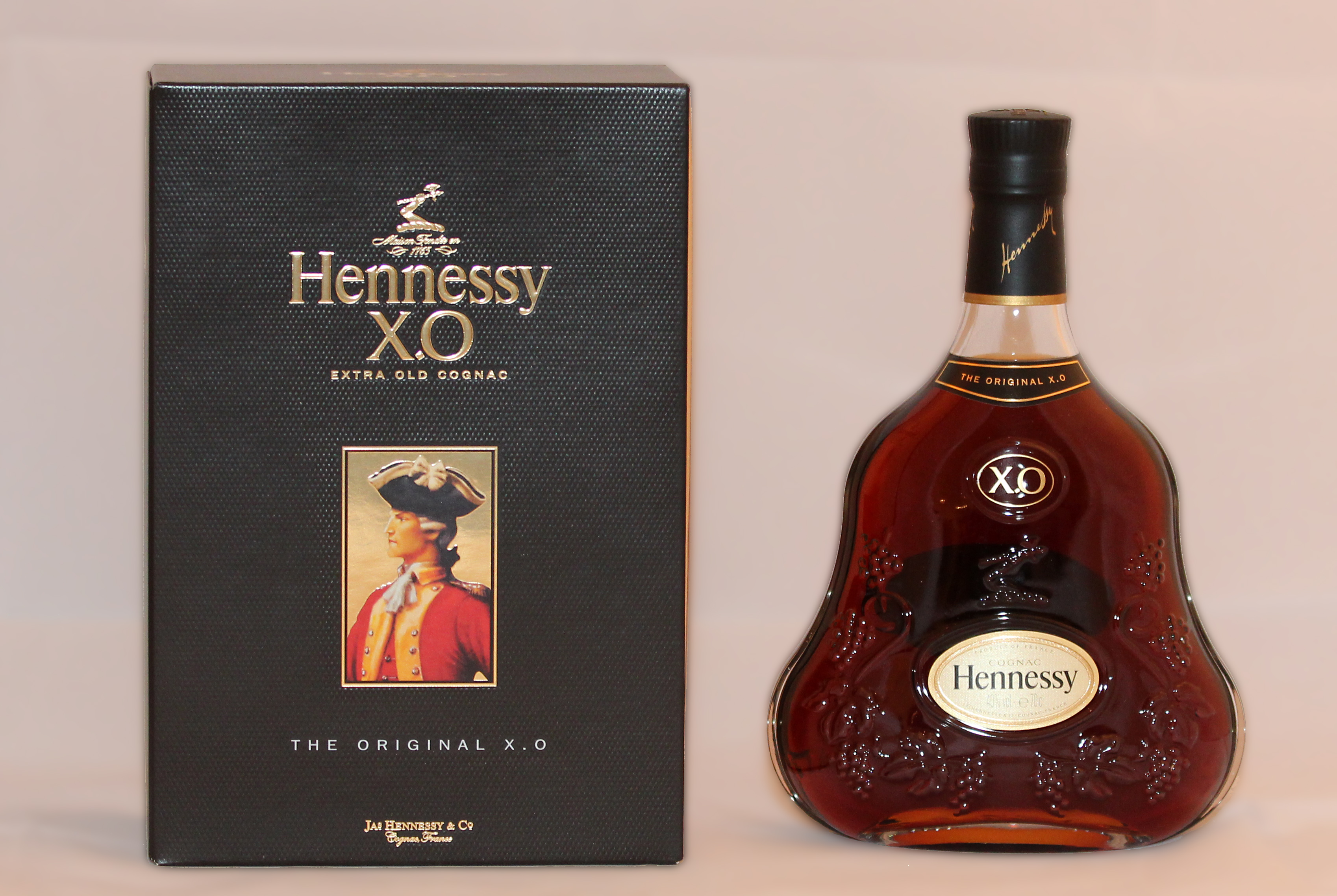 Cognac Hennessy XO